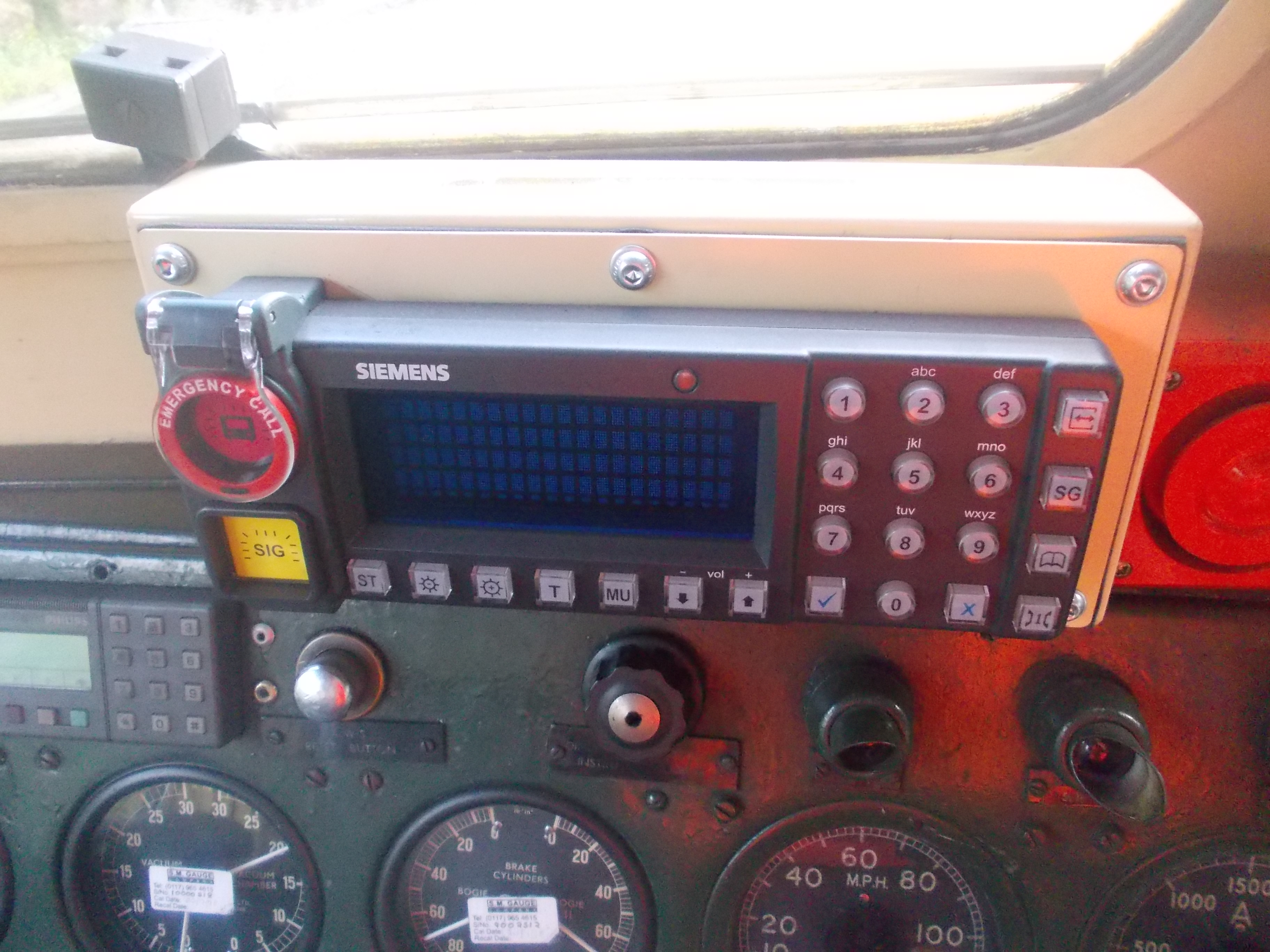 the cab radio of 25278 / d7628